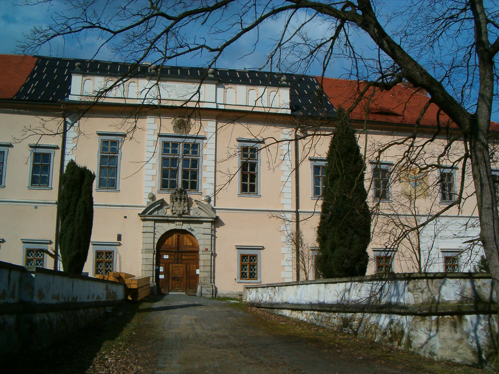 Štěkeň village (district Strakonice) - detail of castle